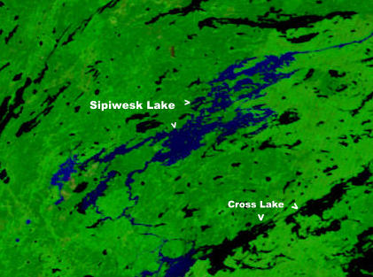 .Portion of NASA map showing Sipiwesk Lake in Manitoba (Captions have been added by Kayoty)